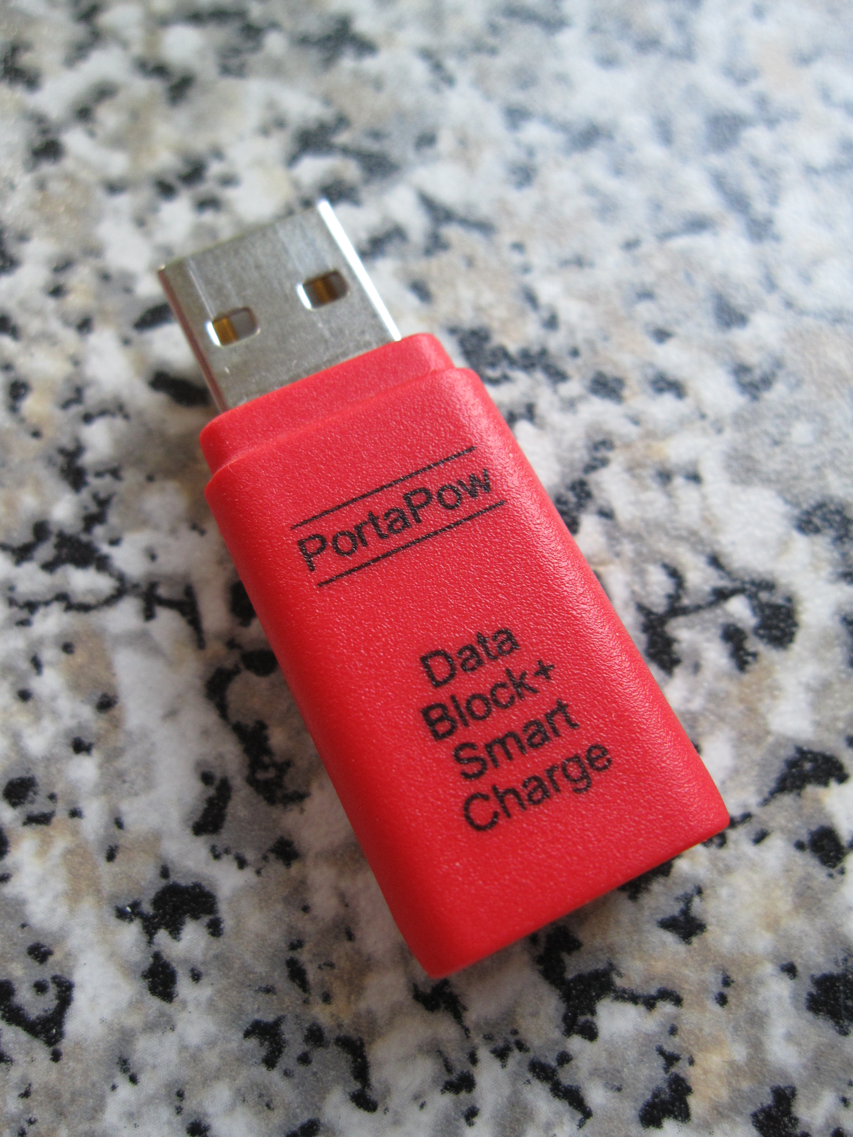 USB condom